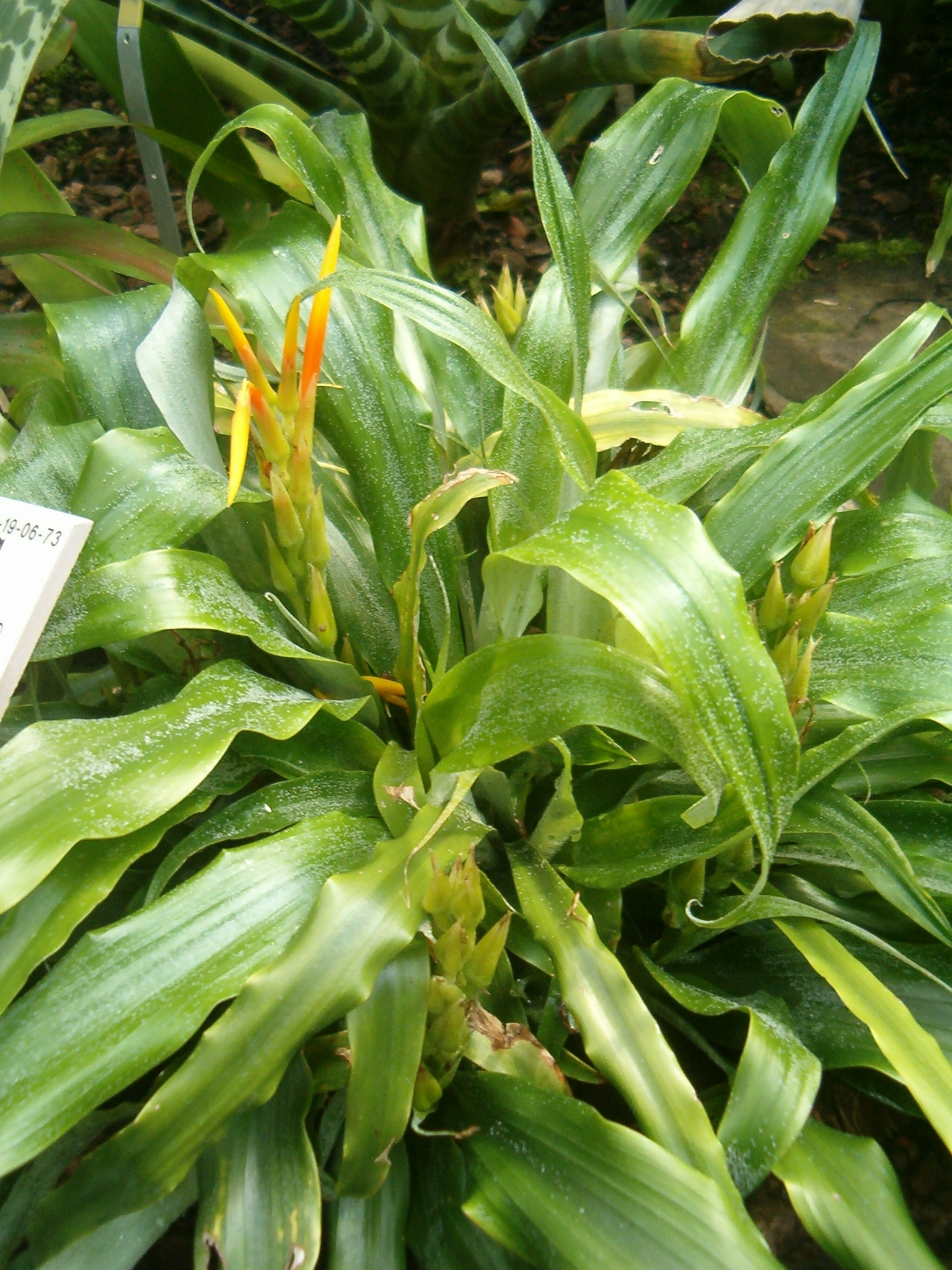 At Botanical Gardens Berlin-Dahlem Species Pitcairnia andreana